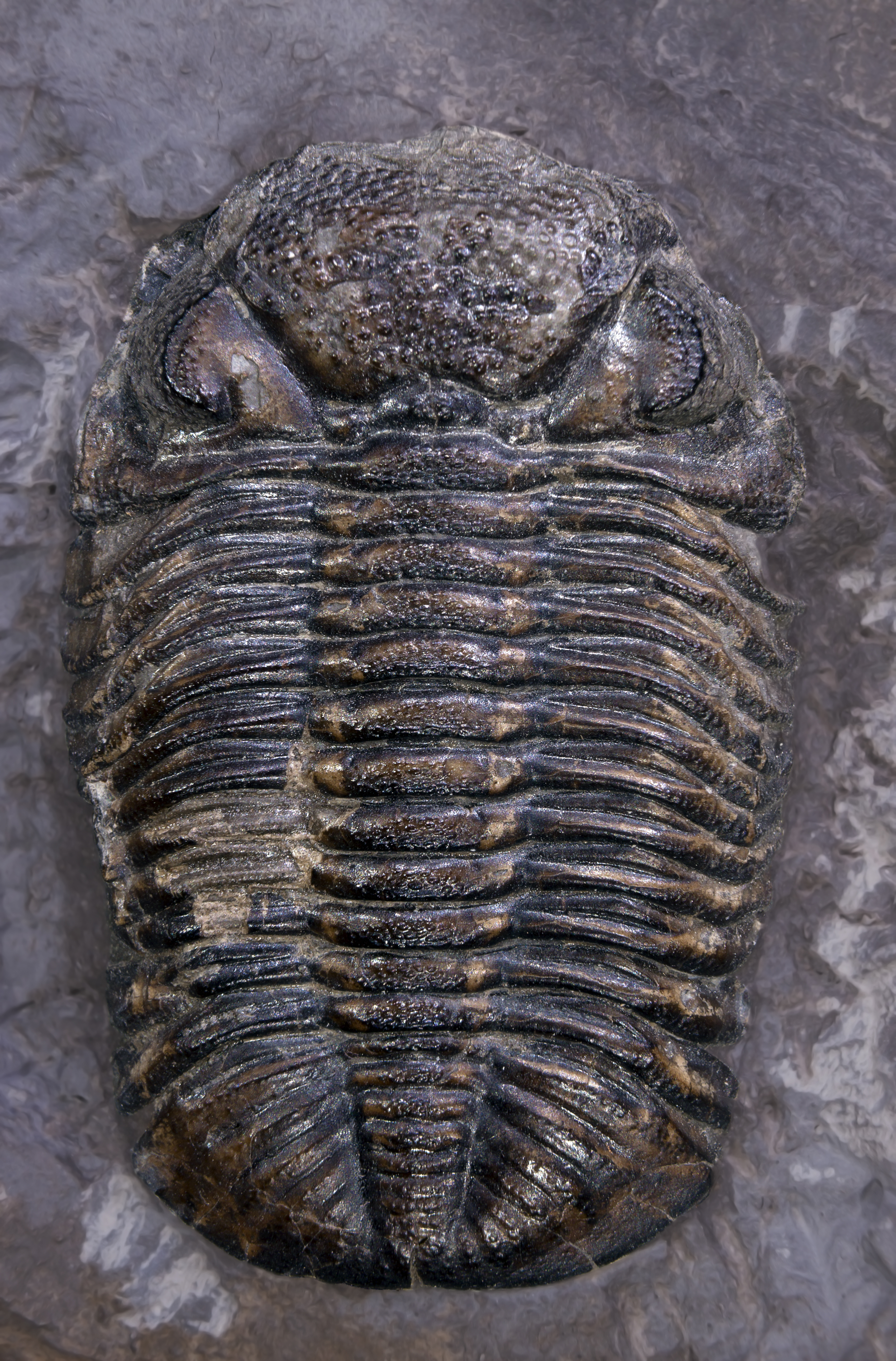 Trilobita - Phacops rana (Green, 1832) Stage : Paleozoic Middle Devonian (Givetian 391,8 – 385,3 Million year ago) Locality : Hamilton group - Ledyard shale –Stat of New-York - USA Size : 4.8 x 2.9 cm